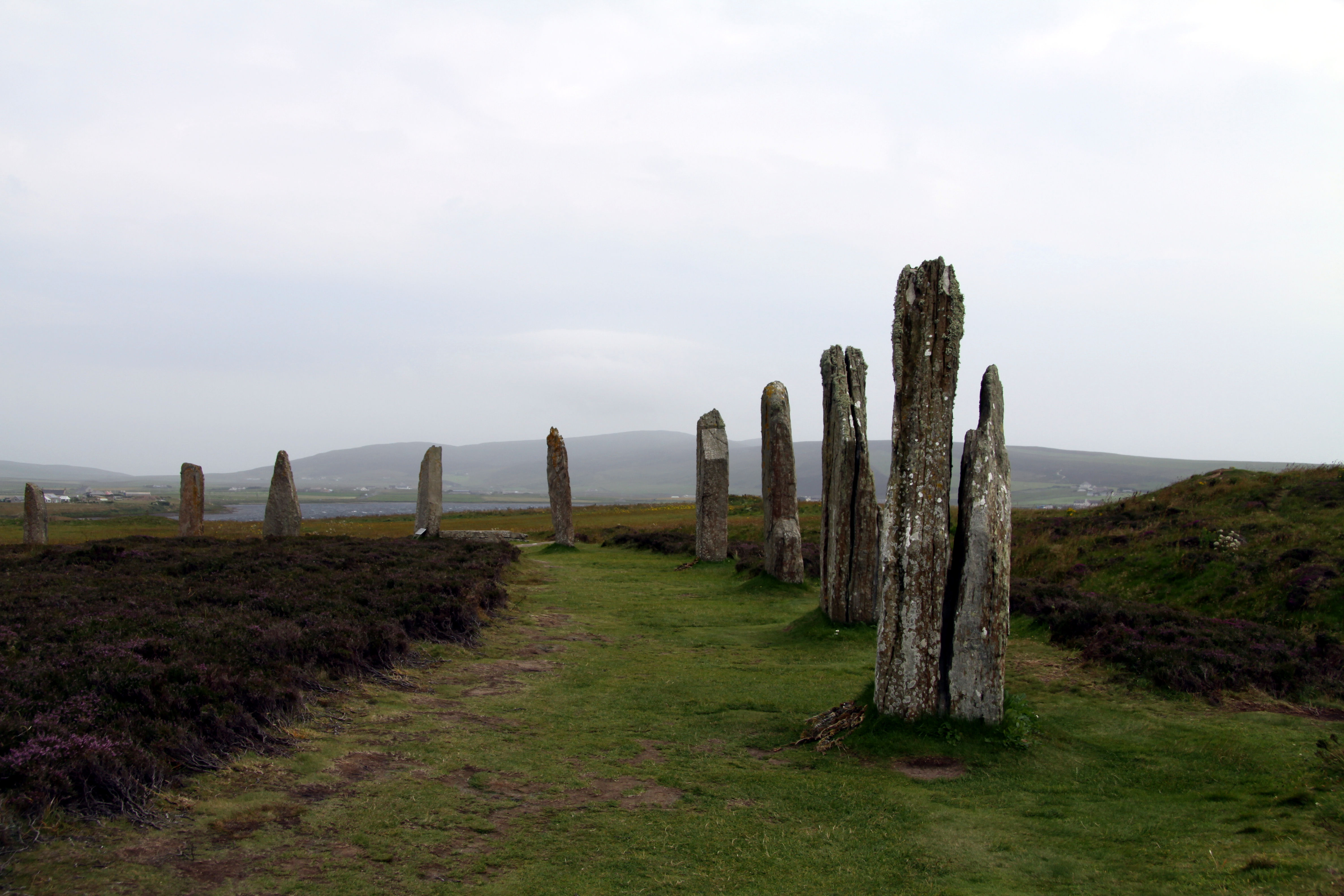 Ring of Brodgar, a Neolithic henge and stone circle, in Orkney Mainland, Scotland